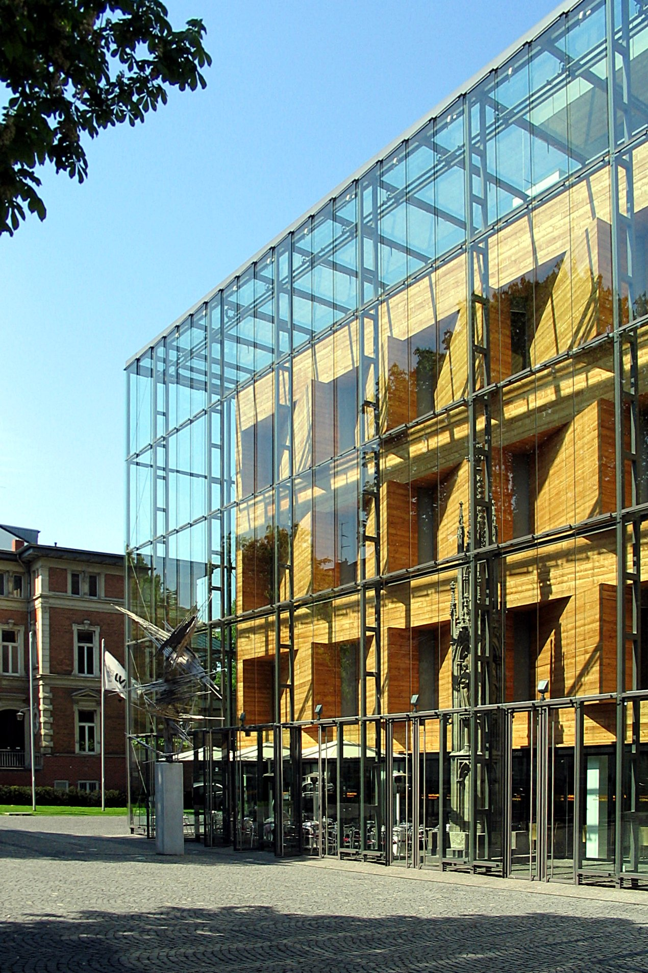 Rheinisches Landesmuseum, Bonn